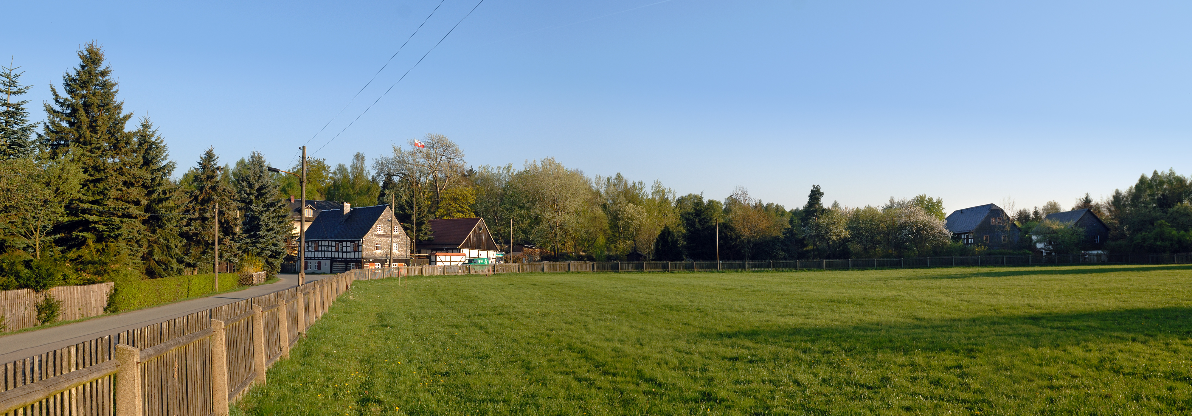 This image shows a panoramic view of Waldhaus, a district of Mohlsdorf, Thuringia, Germany. It is a two segment panoramic image.